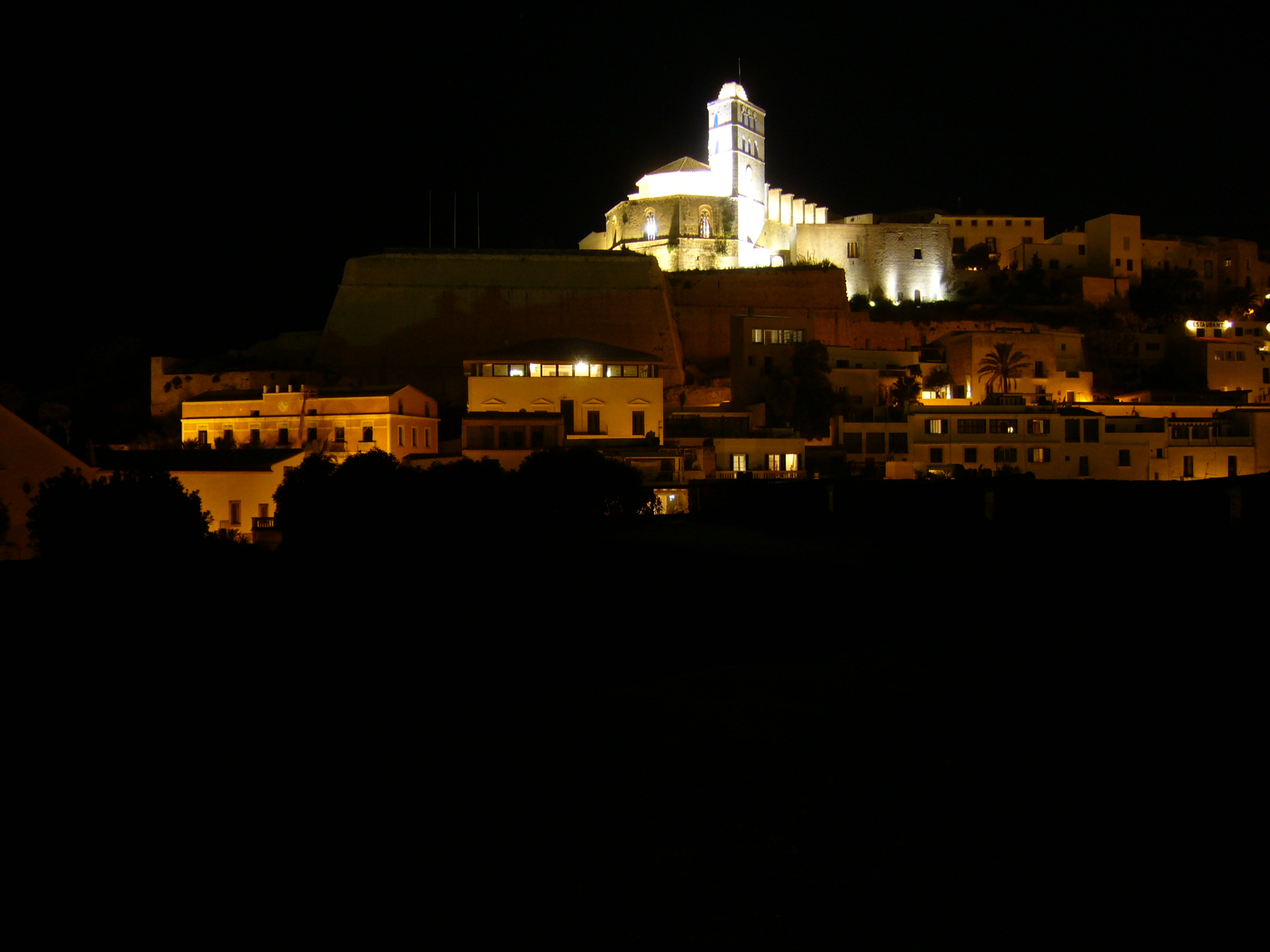 Looking up to Cathedral